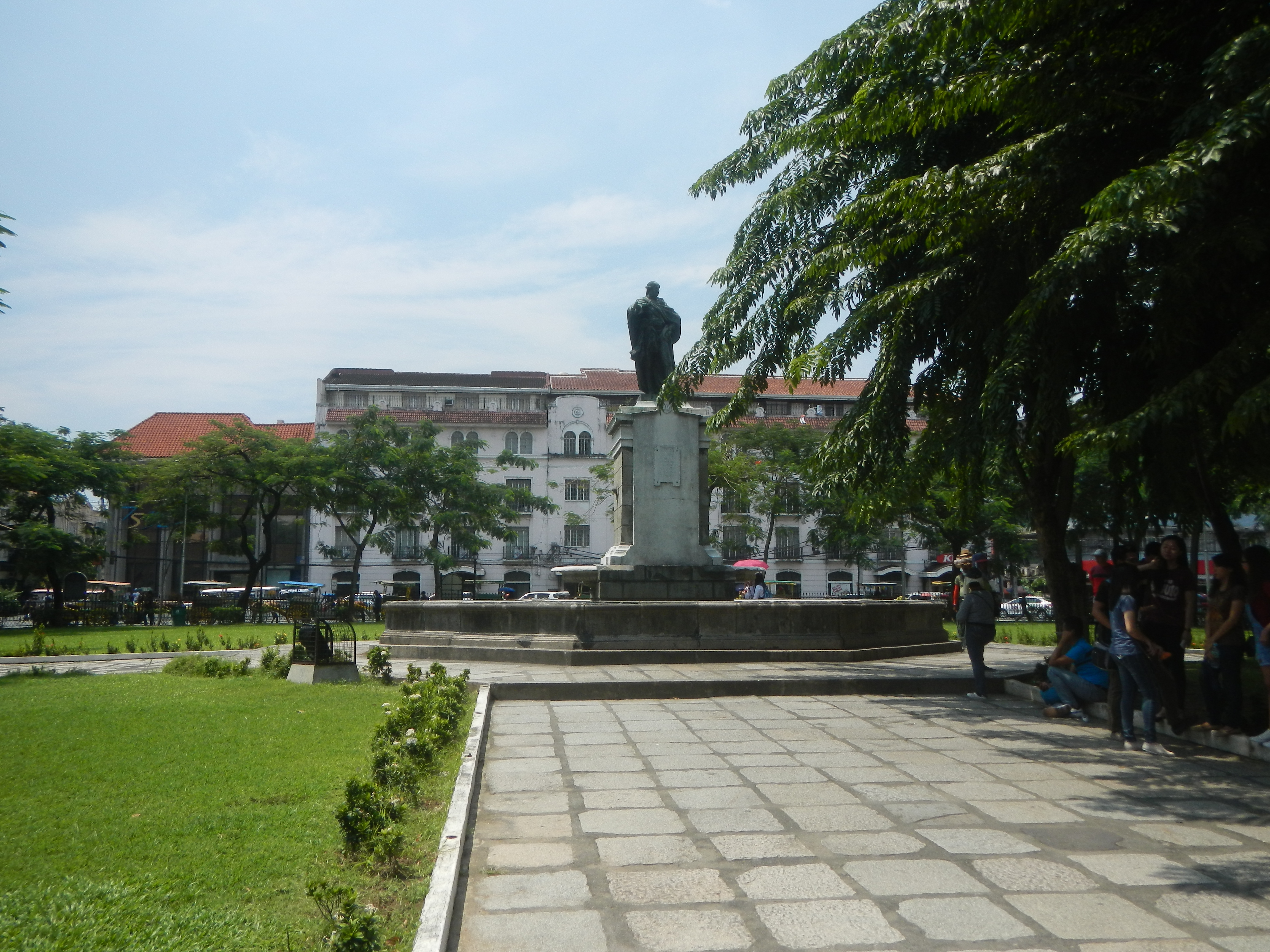 Intramuros, Landmarks include the Manila Cathedral Plaza de Roma, Intramuros King Charles IV of Spain monument, Intramuros along Genral Luna Real de Palacio Street corner A. Soriano, Jr. Avenue (formerly Aduana) corner Arzobizpo Street; Intramuros Fire Station, Bureau of Fire Protection, Plaza de Roma, 1824 bronze statue of Carlos IV of Spain, 1886 Fountain; Main facade-Clock Tower-Belfry; (Note: Judge Florentino Floro, the owner, to repeat, Donor Florentino Floro of all these photos hereby donate gratuitously, freely and unconditionally all these photos to and for Wikimedia Commons, exclusively, for public use of the public domain, and again without any condition whatsoever).